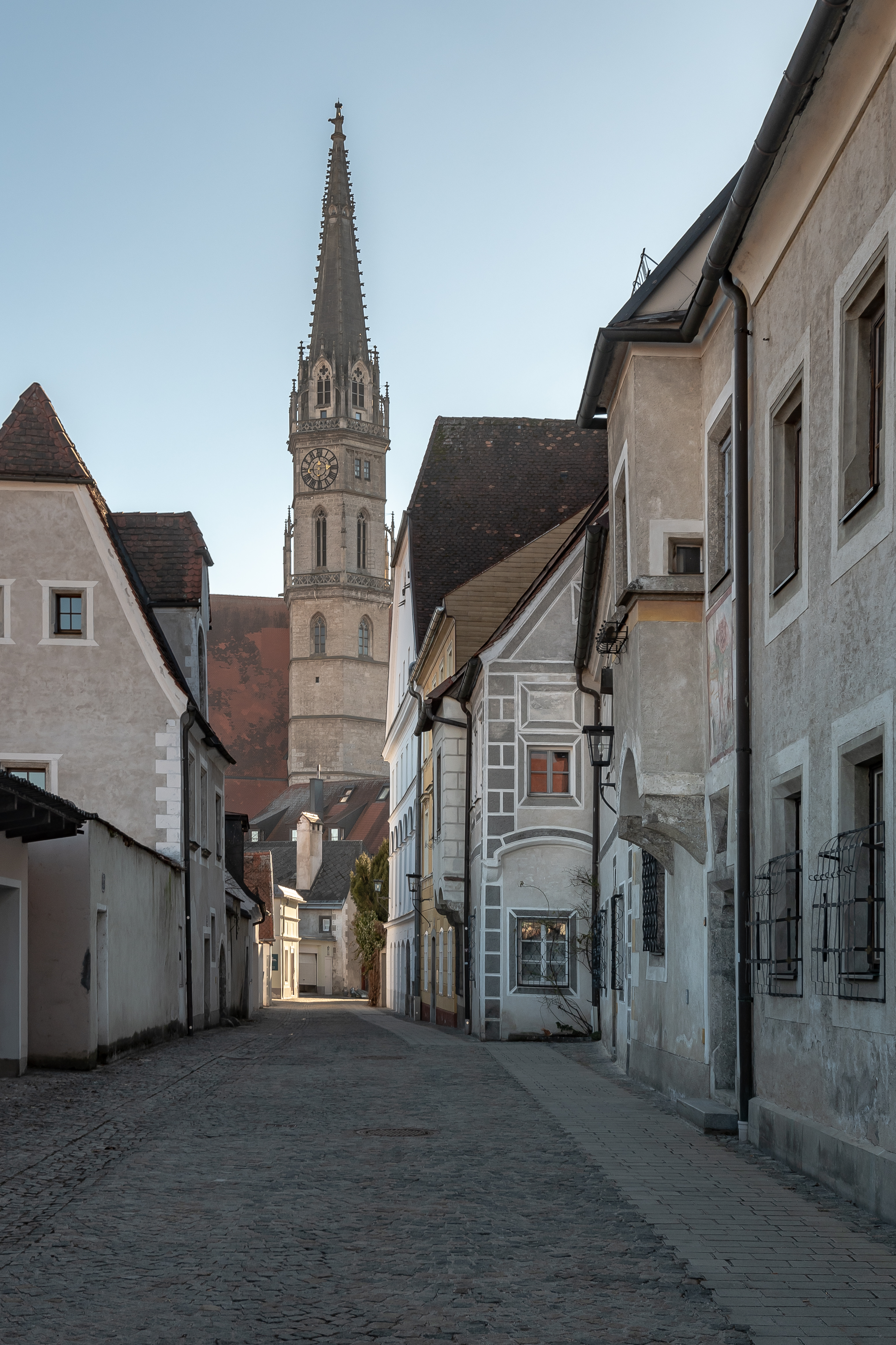 The Buildings in Berggasse in Steyr (Upper Austria) are protected as cultural heritage monuments.